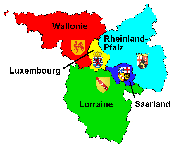 contemporary member states of SaarLorLux